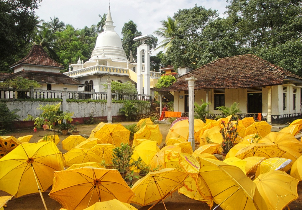 Ingiriya Religious01